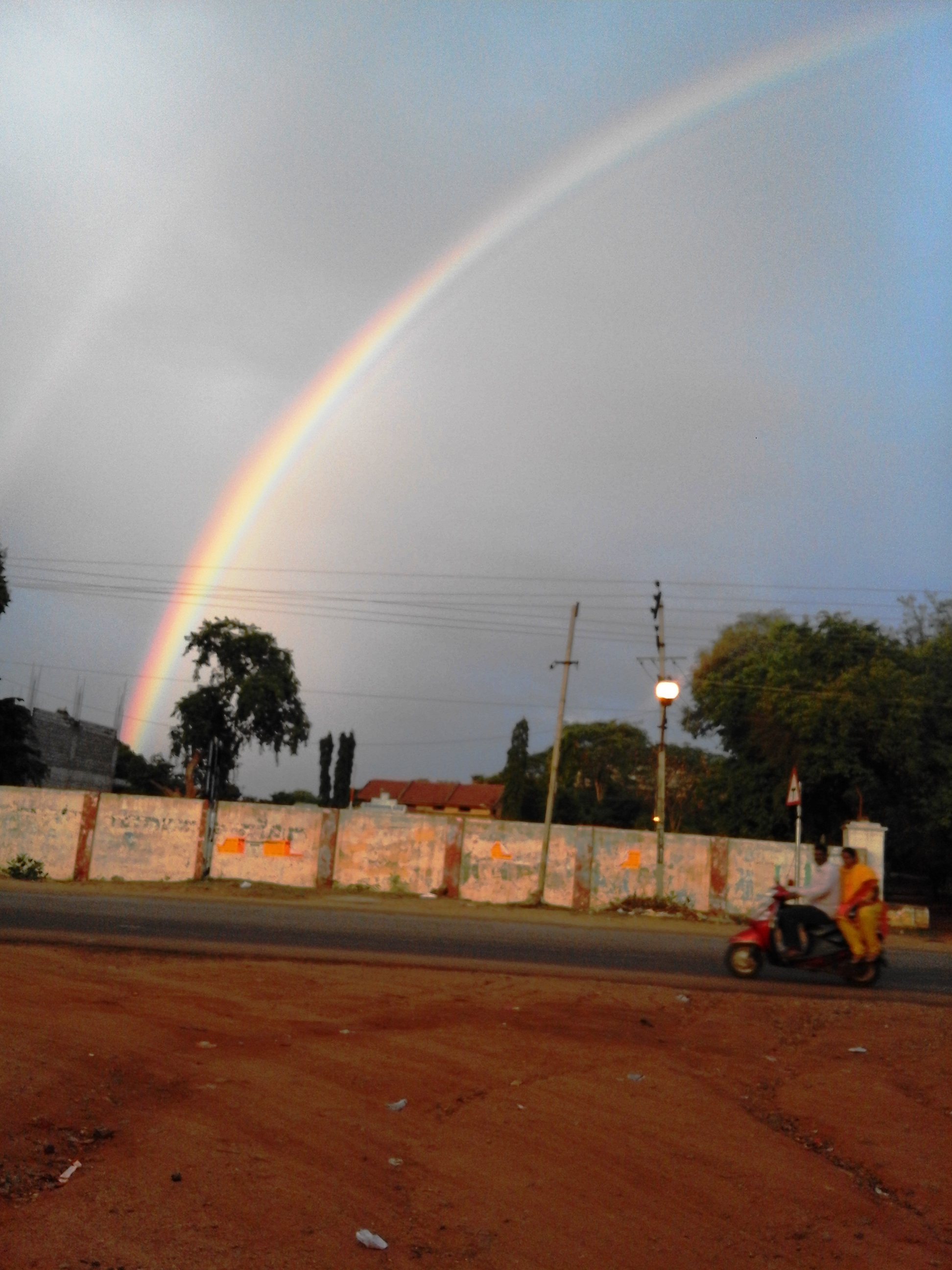 Kollegal town, Chamaraja Nagar district, Karnataka Province, India